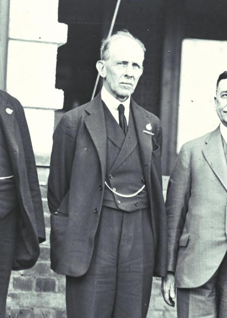 British politician Lord Salisbury at a meeting of the Empire Parliamentary Association in Australia in October 1926.